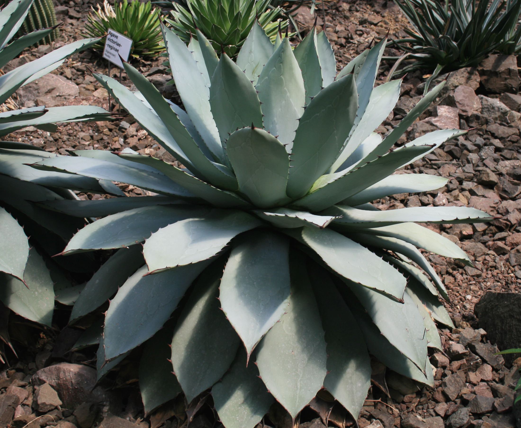 Succulent plant Agave potatorum in Botanical Garden Liberec, Czech Republic